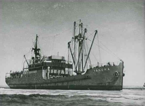 S.S. Yandra